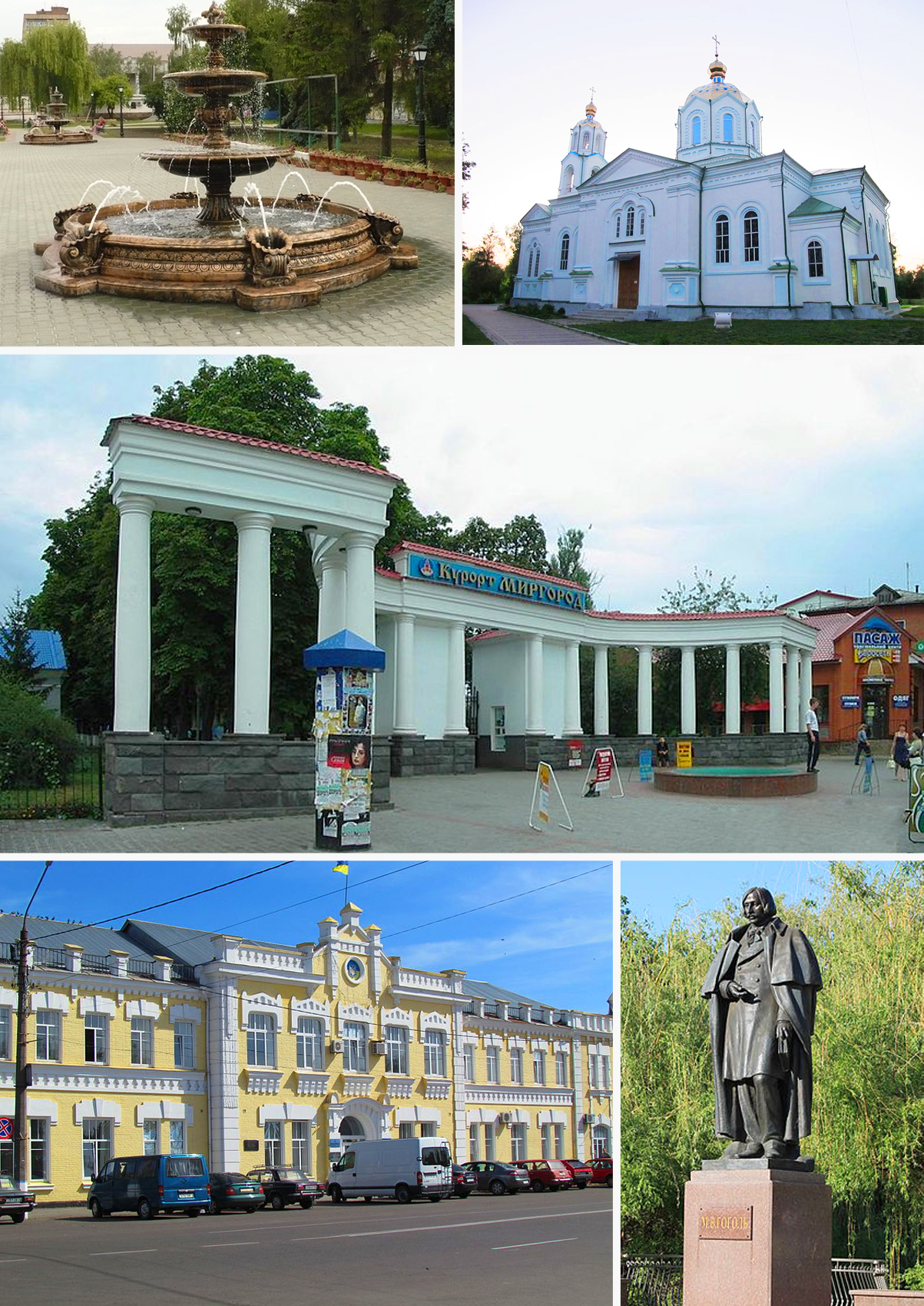 Top row: Fountains in the downtown, Assumption Cathedral. Average row: central entrance to Myrhorod spa resort. Lower row: Mirgorod city council, Gogol`s monument.